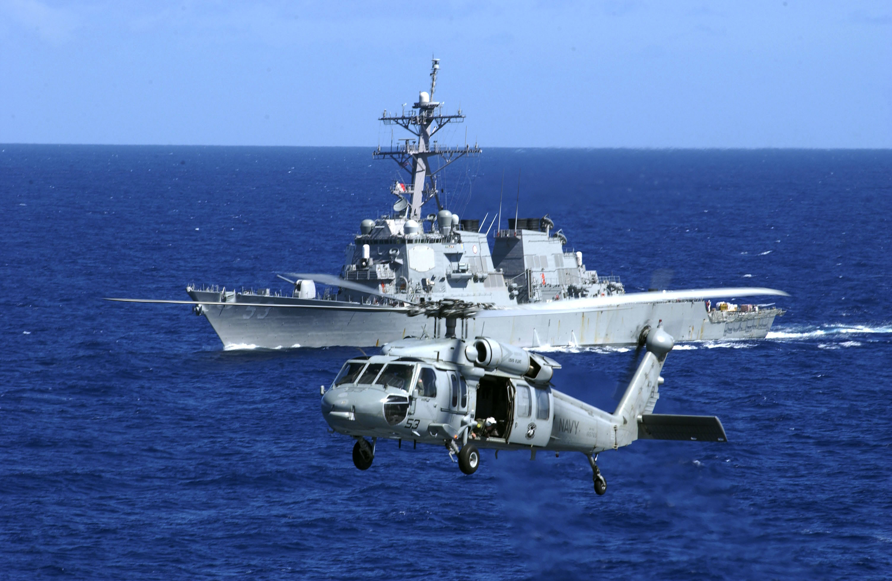 Coral Sea (July 11, 2005) - An MH-60S Seahawk, assigned to Helicopter Sea Combat Squadron Two Five (HSC-25), flies near the guided missile destroyer USS John Paul Jones (DDG 53) during a vertical replenishment. U.S. Navy photo by Photographer's Mate Airman Dylan Butler (RELEASED)